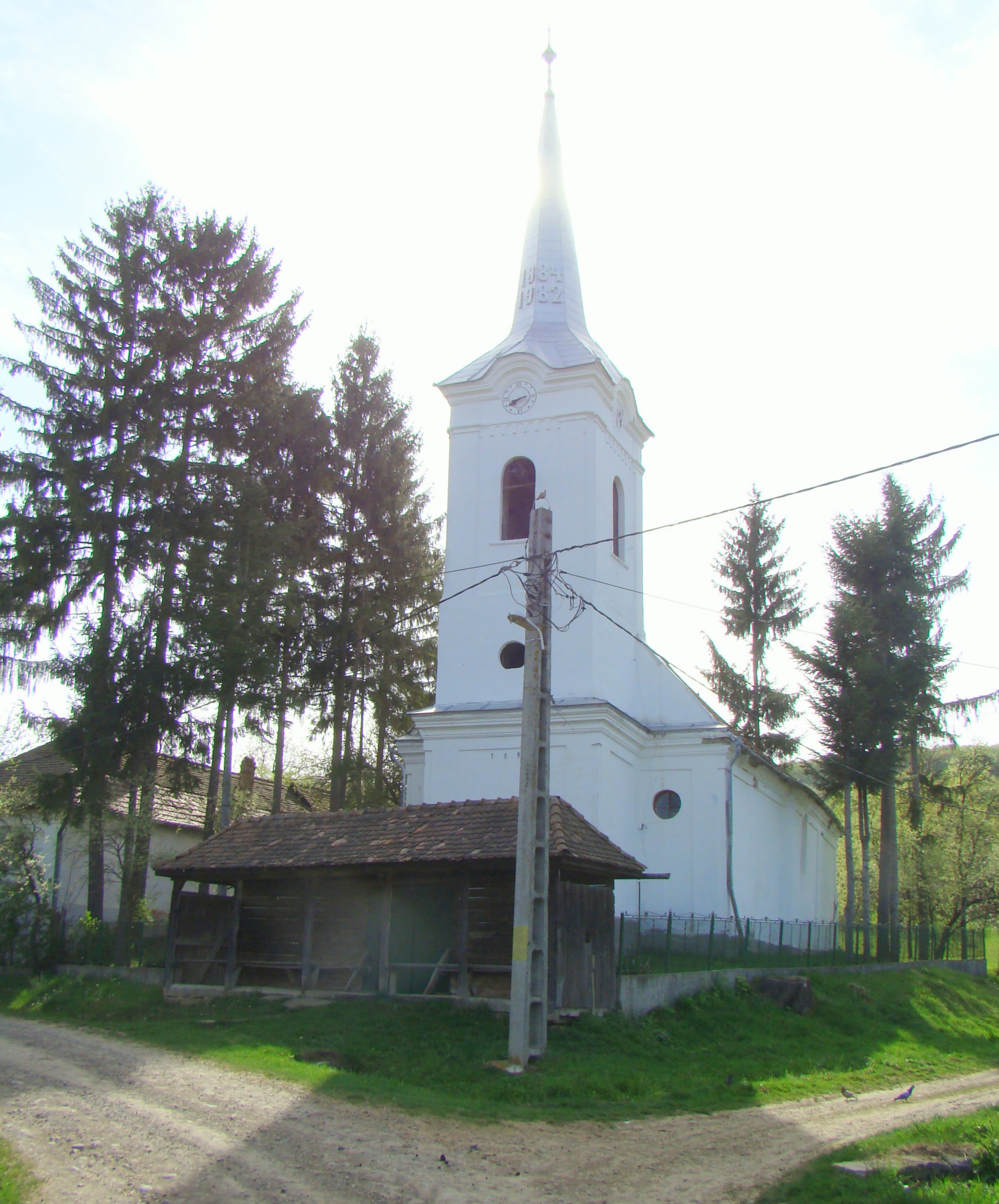 Reformed church in Corbești, Mureș county, Romania